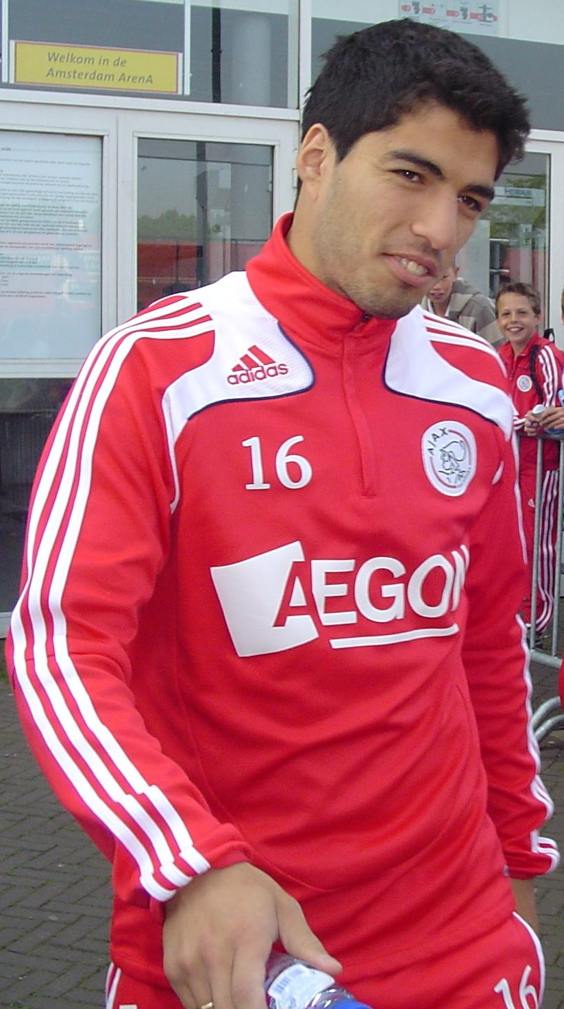 Suarez before de training from Ajax